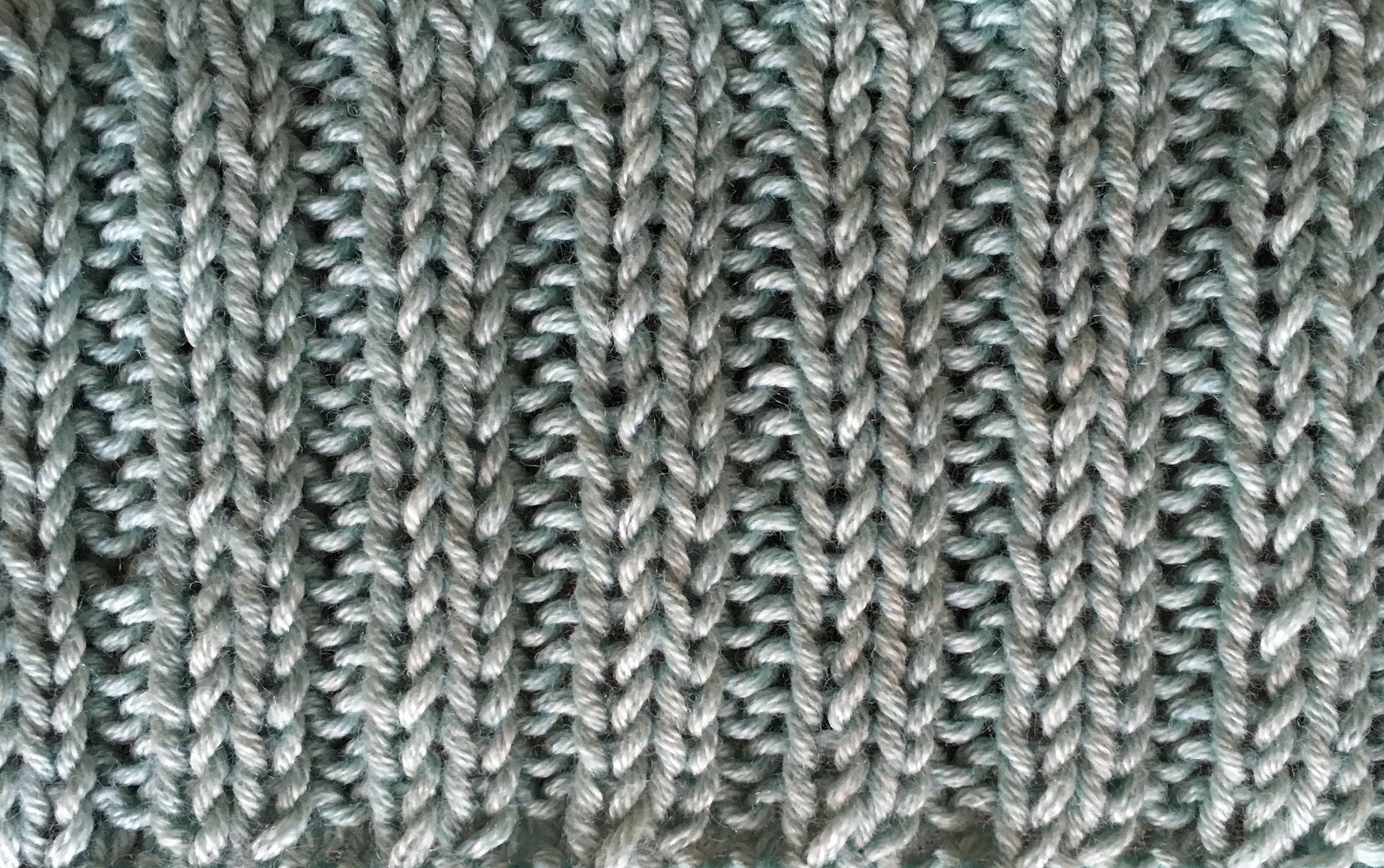 Knitting swatch of ribbed knitting; 2 knit, 2 purled.